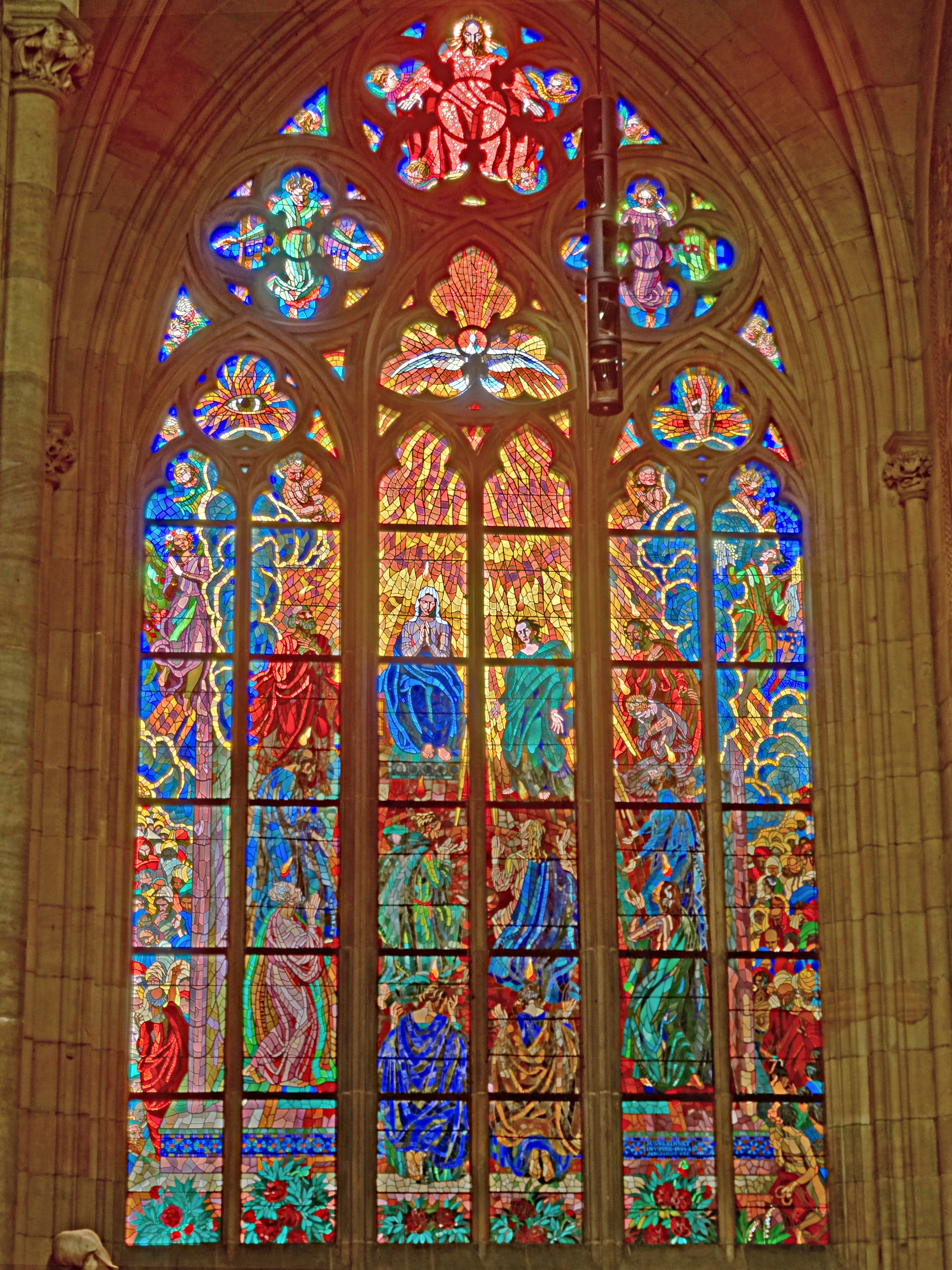 Stained glass window in the Saint Ludmila Chapel of the Prague St. Vitus Cathedral